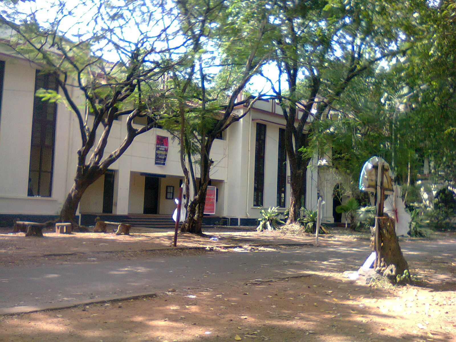 Maharajas